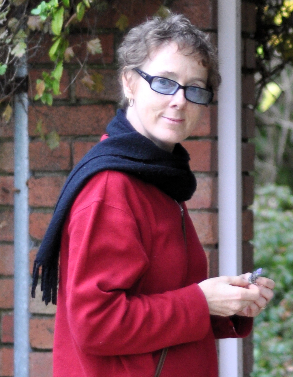 Donna Williams, at Heide Museum of Modern Art, on 7 May 2011, in Bulleen, Victoria, Australia.